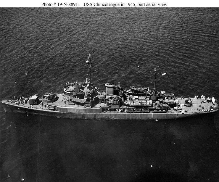 United States Navy seaplane tender USCGC Absecon (AVP-24) in mid-1945 off the United States West Coast after an overhaul